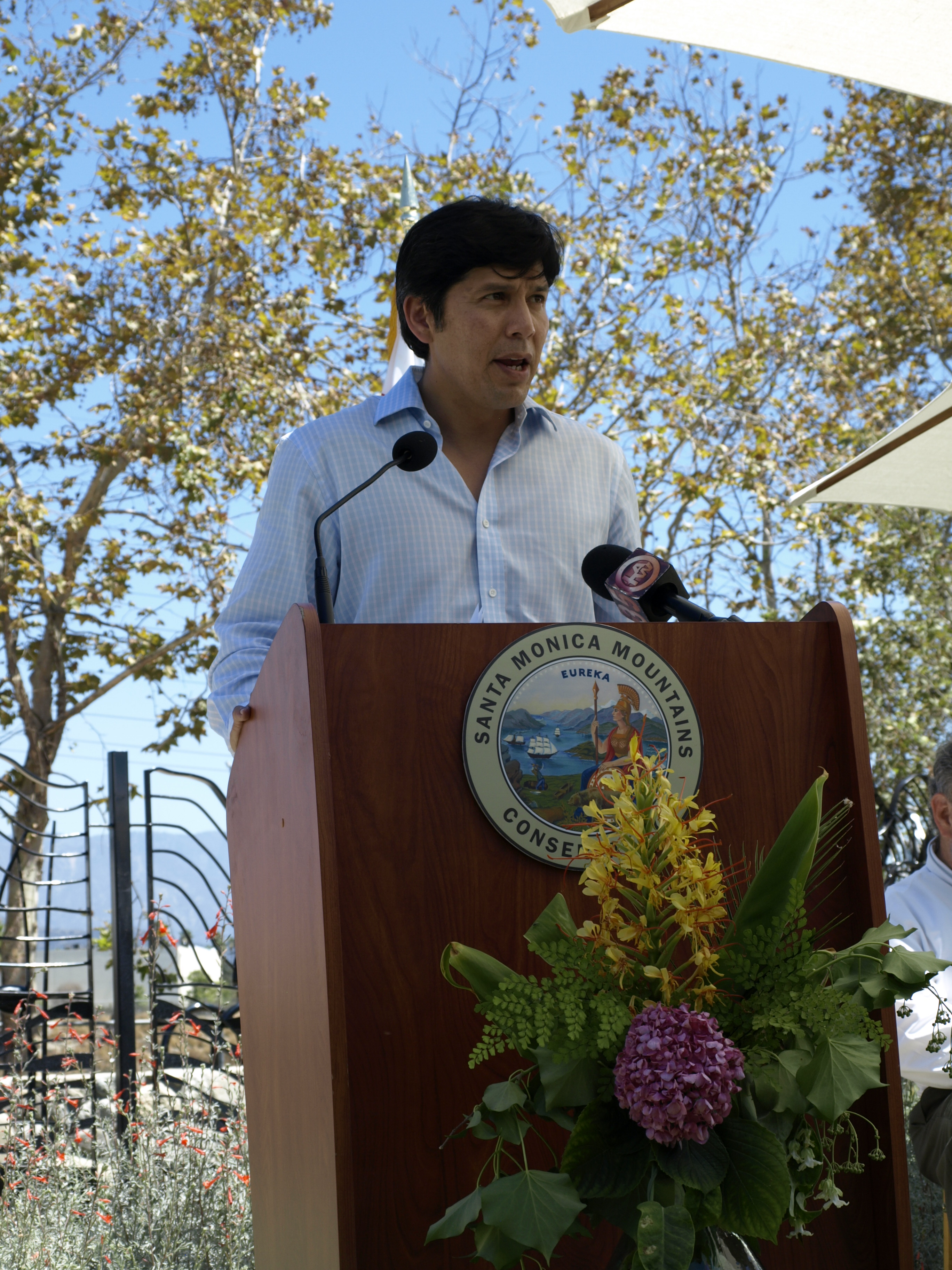 Marsh Park Phase Two Opening